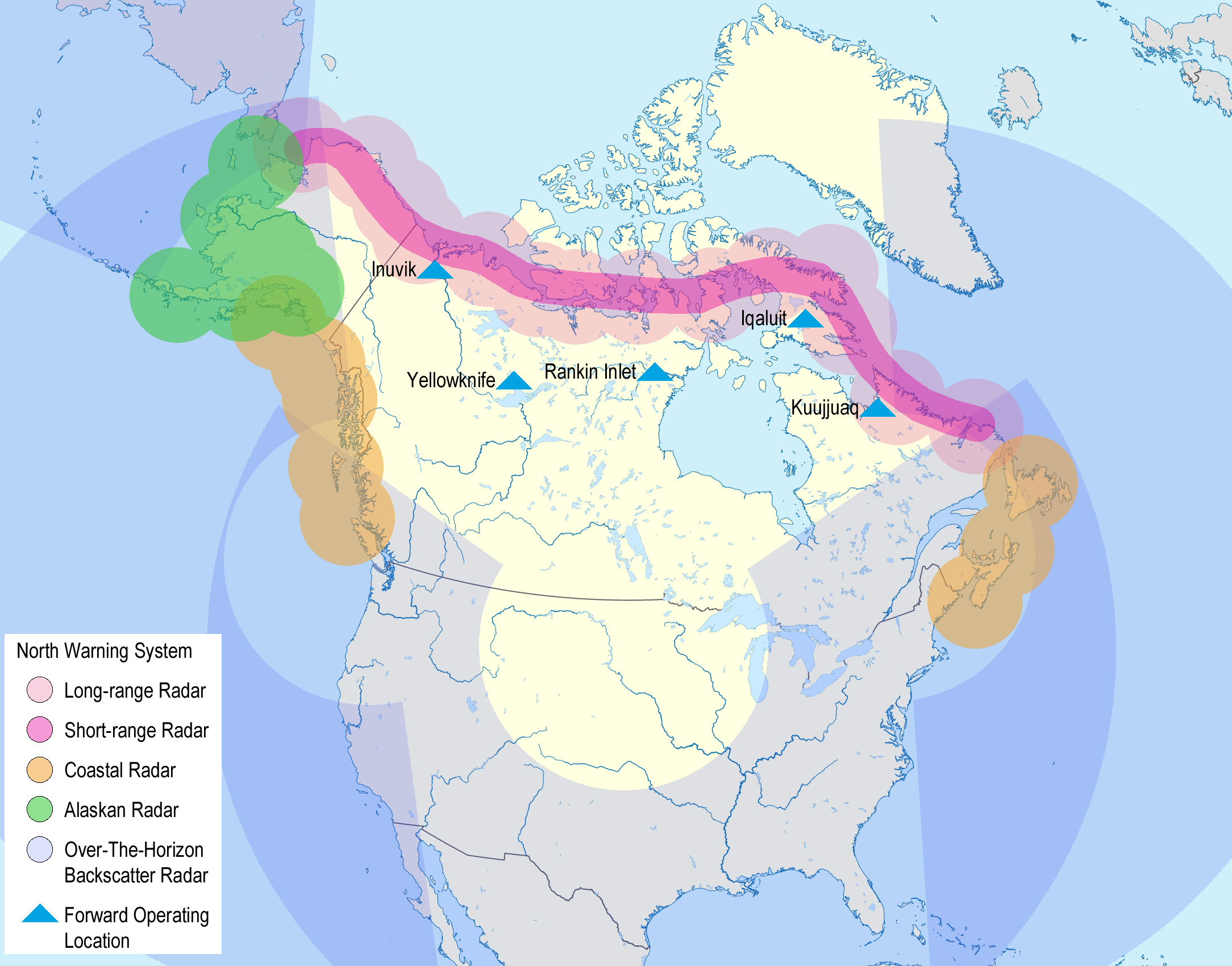 The Canadian-American NORAD North Radar System as agreed by the two nation in 1987. Source: "Challenge and Commitment - A Defence Policy for Canada", page 57, published by the Ministry of Defence of Canada